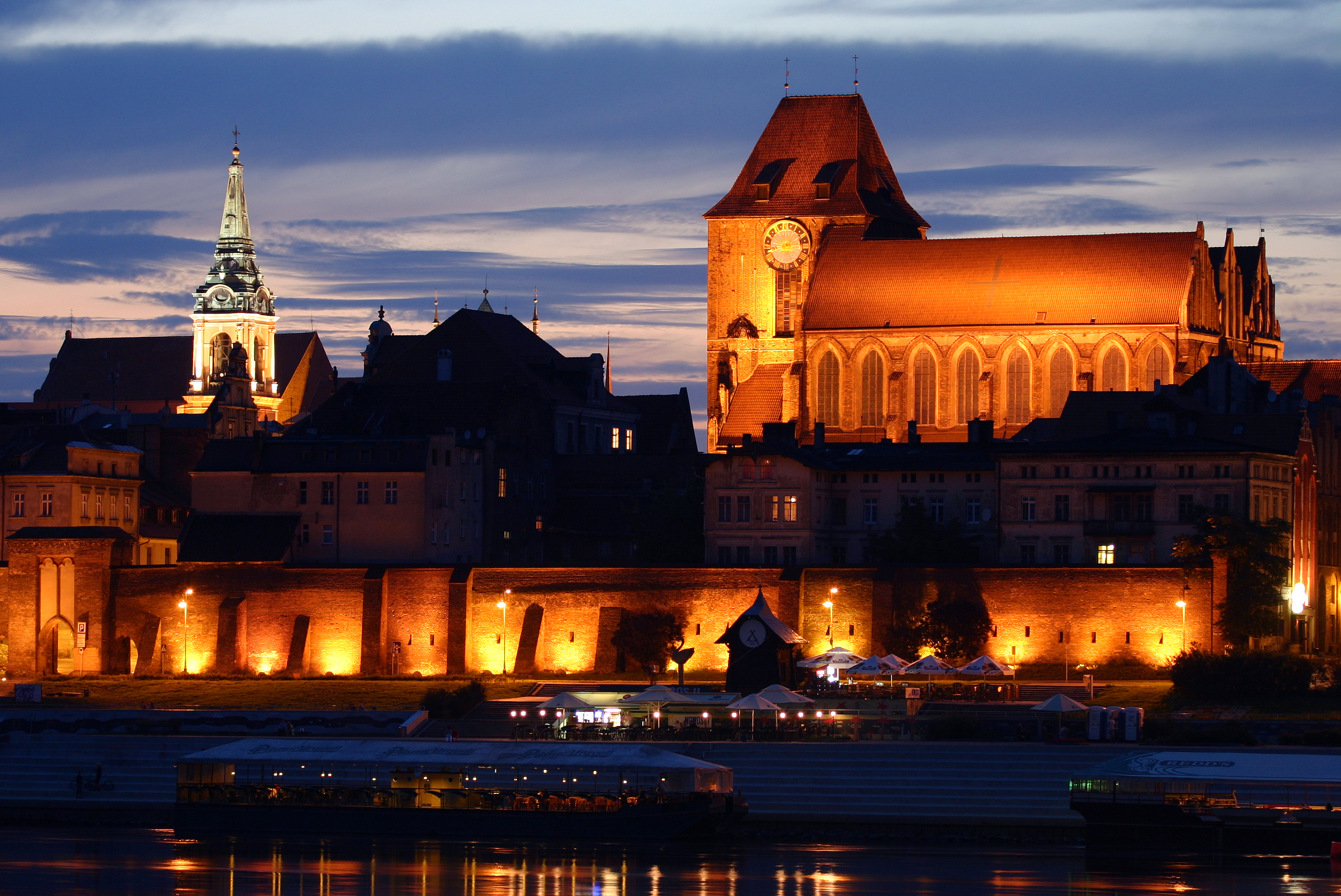 Torun owes its origins to the Teutonic Order, which built a castle there in the mid-13th century as a base for the conquest and evangelization of Prussia. It soon developed a commercial role as part of the Hanseatic League. In the Old and New Town, the many imposing public and private buildings from the 14th and 15th centuries (among them the house of Copernicus) are striking evidence of Torun's importance. Explore Jan 12th 2007 # 383 'Medieval Town of Torun' On Black